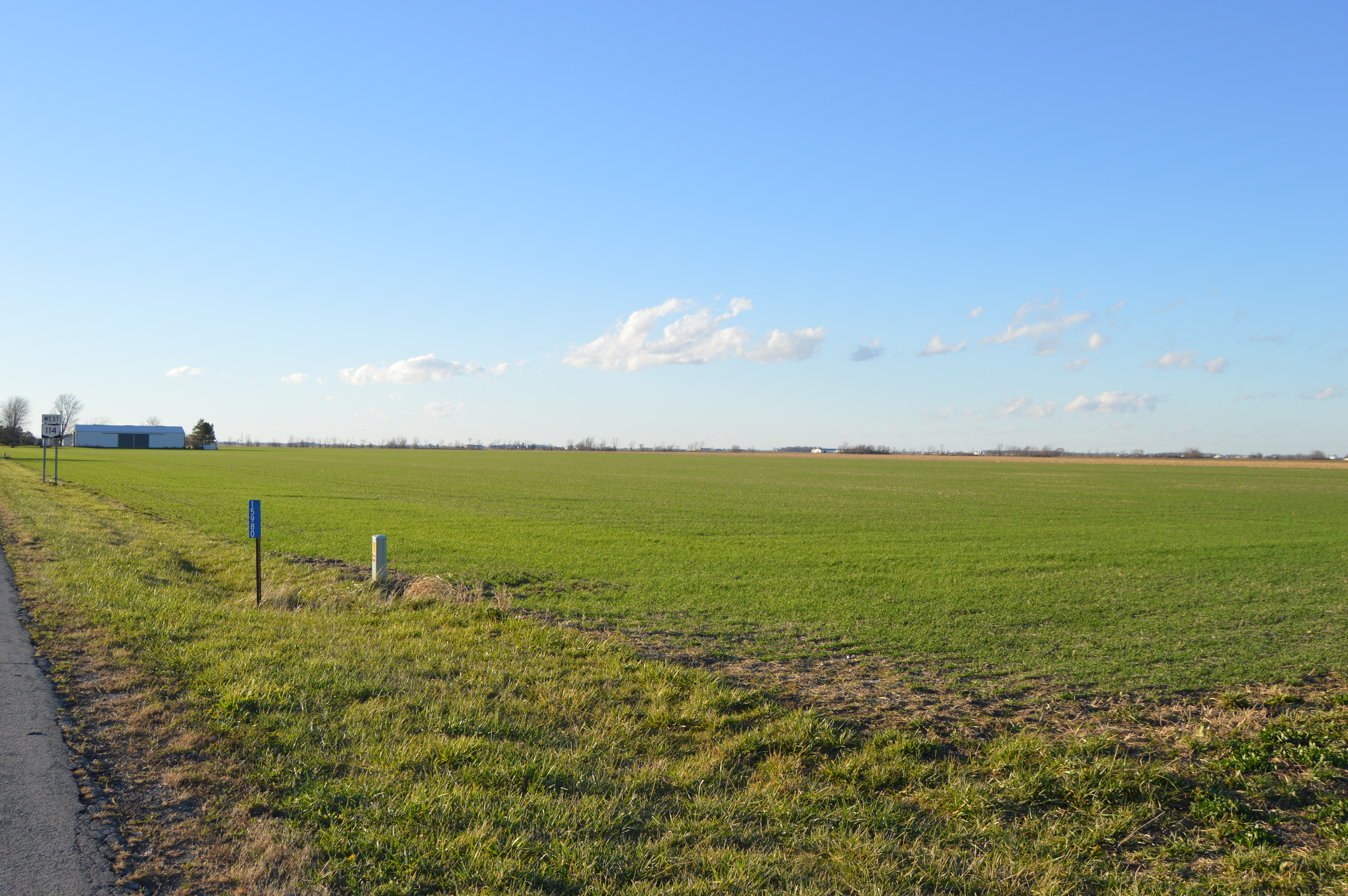 Wheat fields northwest of the intersection of State Route 114 and Road 131 between Grover Hill and Haviland in Latty Township, Paulding County, Ohio, United States.